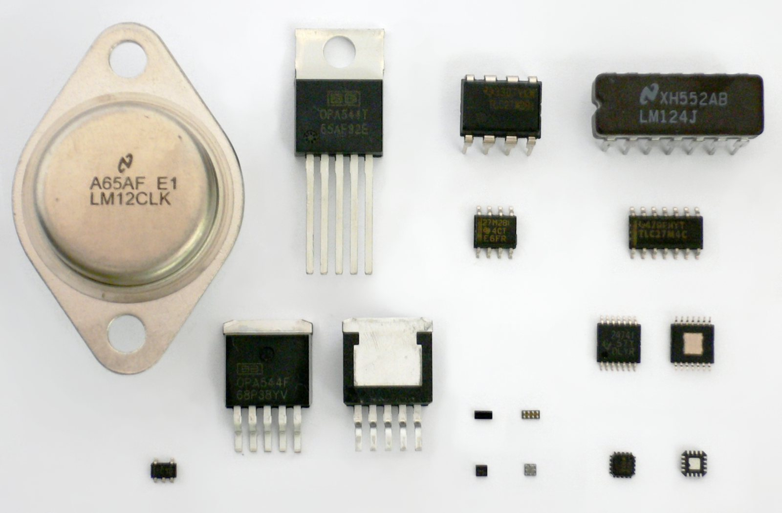 Different Packages of OPAMP